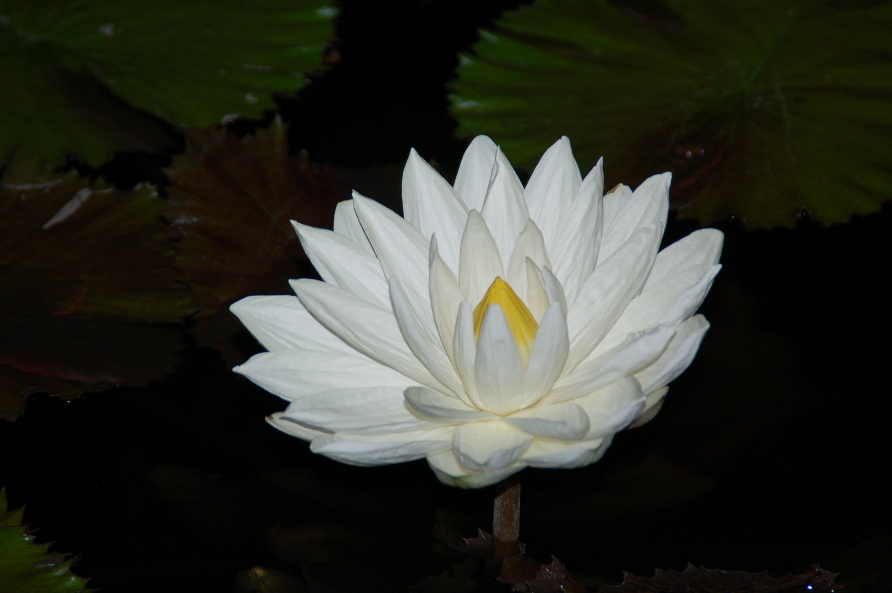 Night-blooming water lilies (Nymphaea lotus) aren't found all that often. In the summer months, you get a chance to see them.